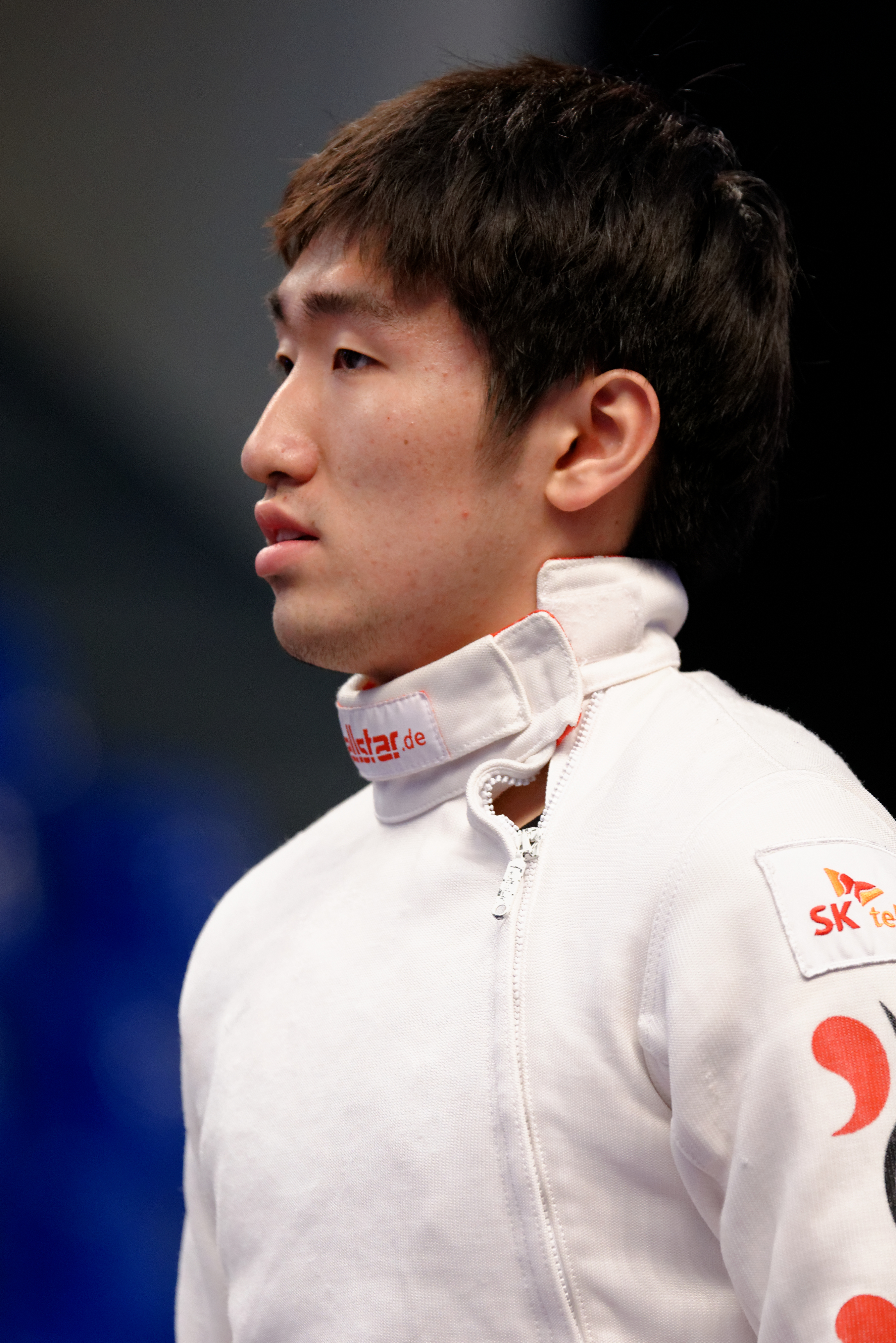 South Korea's Park Sang-young during his T64 match against Yulen Pereira of Spain at the 2014 Challenge RFF-Trophée Monal, a men's épée World Cup event, on 3 May 2014.